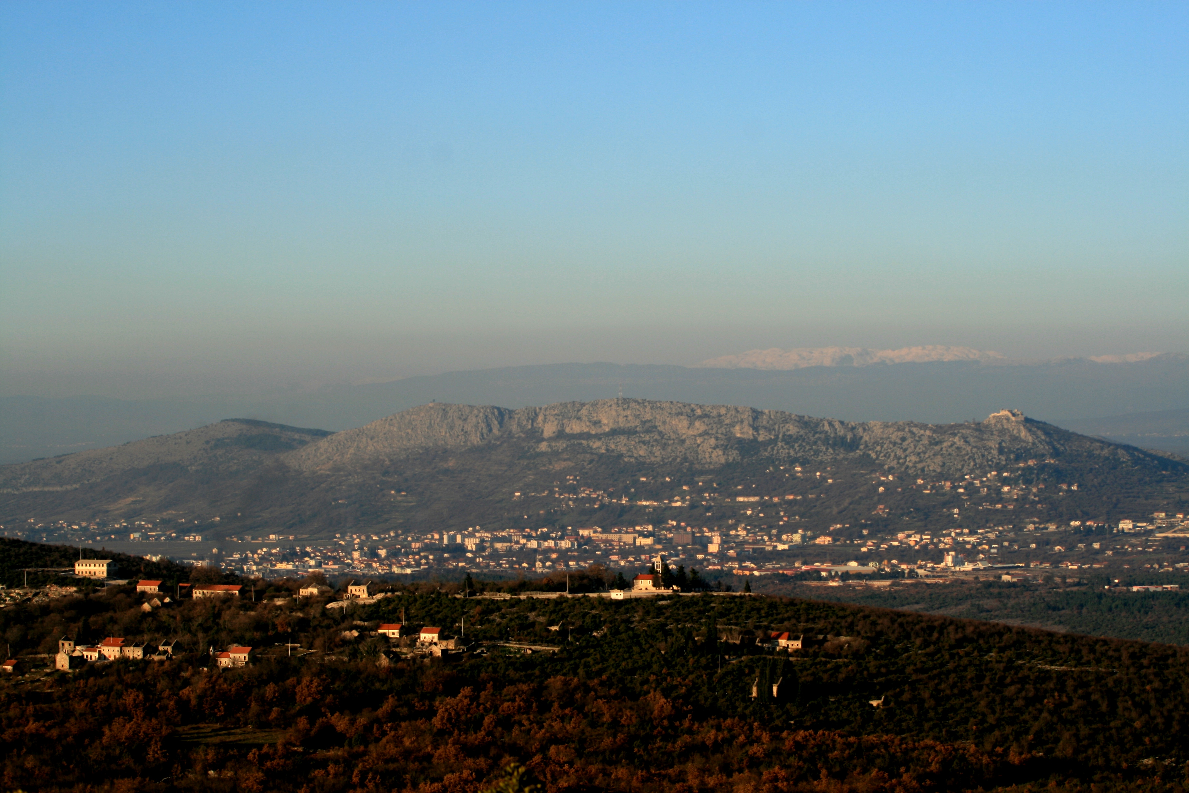 Panoramic view on Ljubuški from south